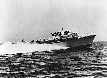 The U.S. Navy motor torpedo boat PT-10. Lead ship of the ten 70 foot Elco PT boats, PT-10 was commissioned on 4 November 1940. In April 1941 it was sold to the Royal Navy and became MTB 259.